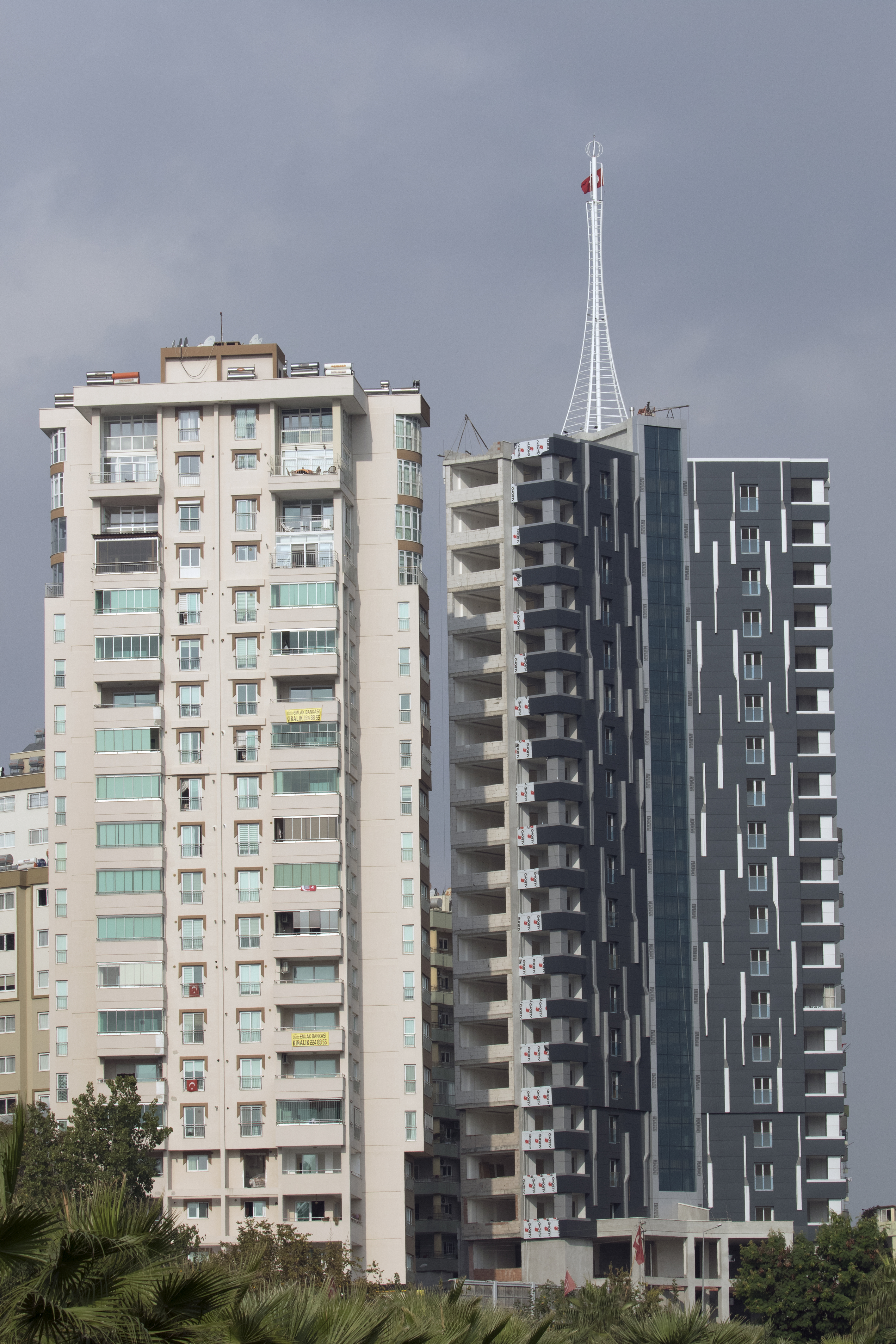 Apartment Houses in Yenibaraj quarter in Seyhan - Adana, Turkey.